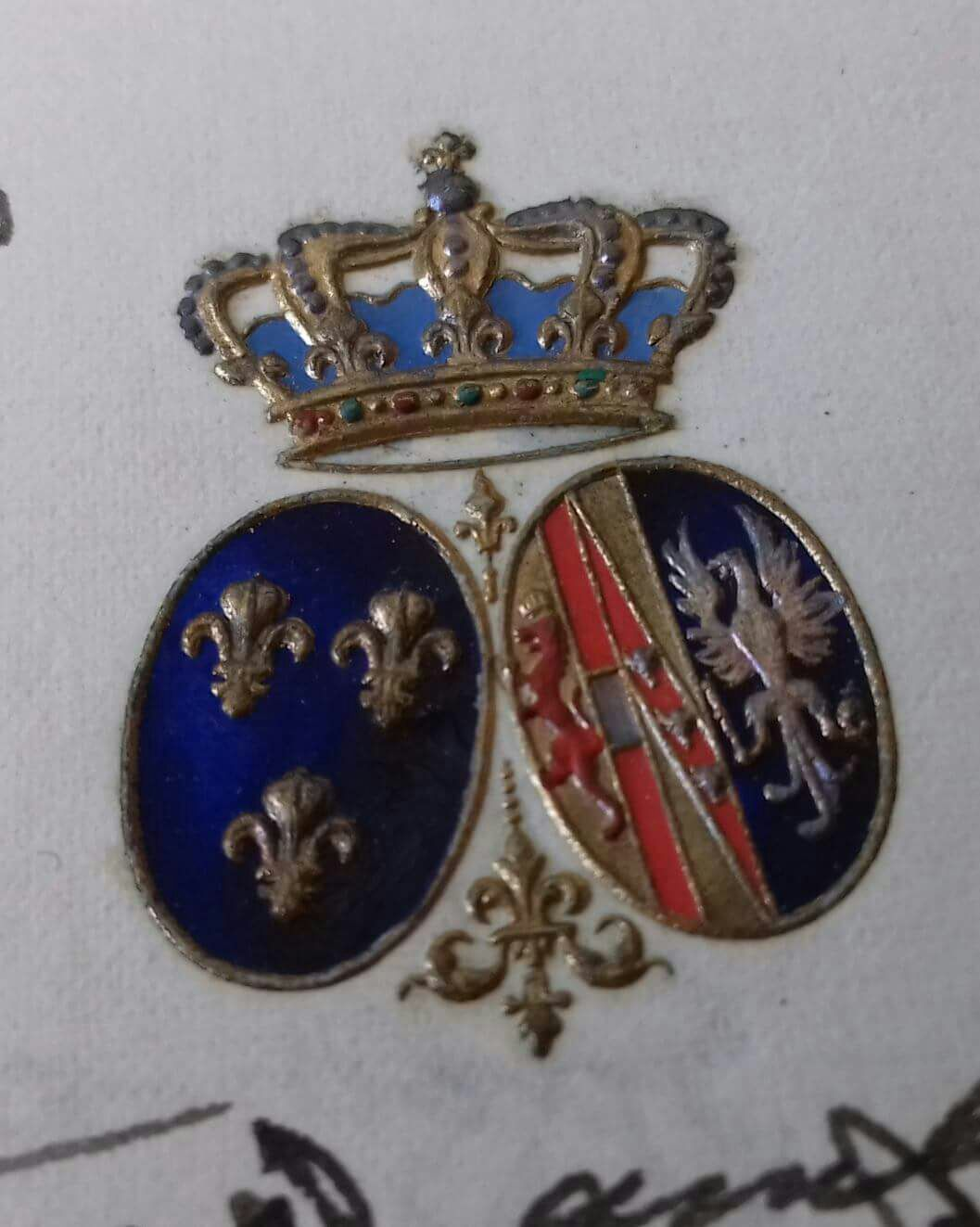 Coats of arms of Henry of Chambord and Maria Theresia of Austria-Este, letter s. XIX